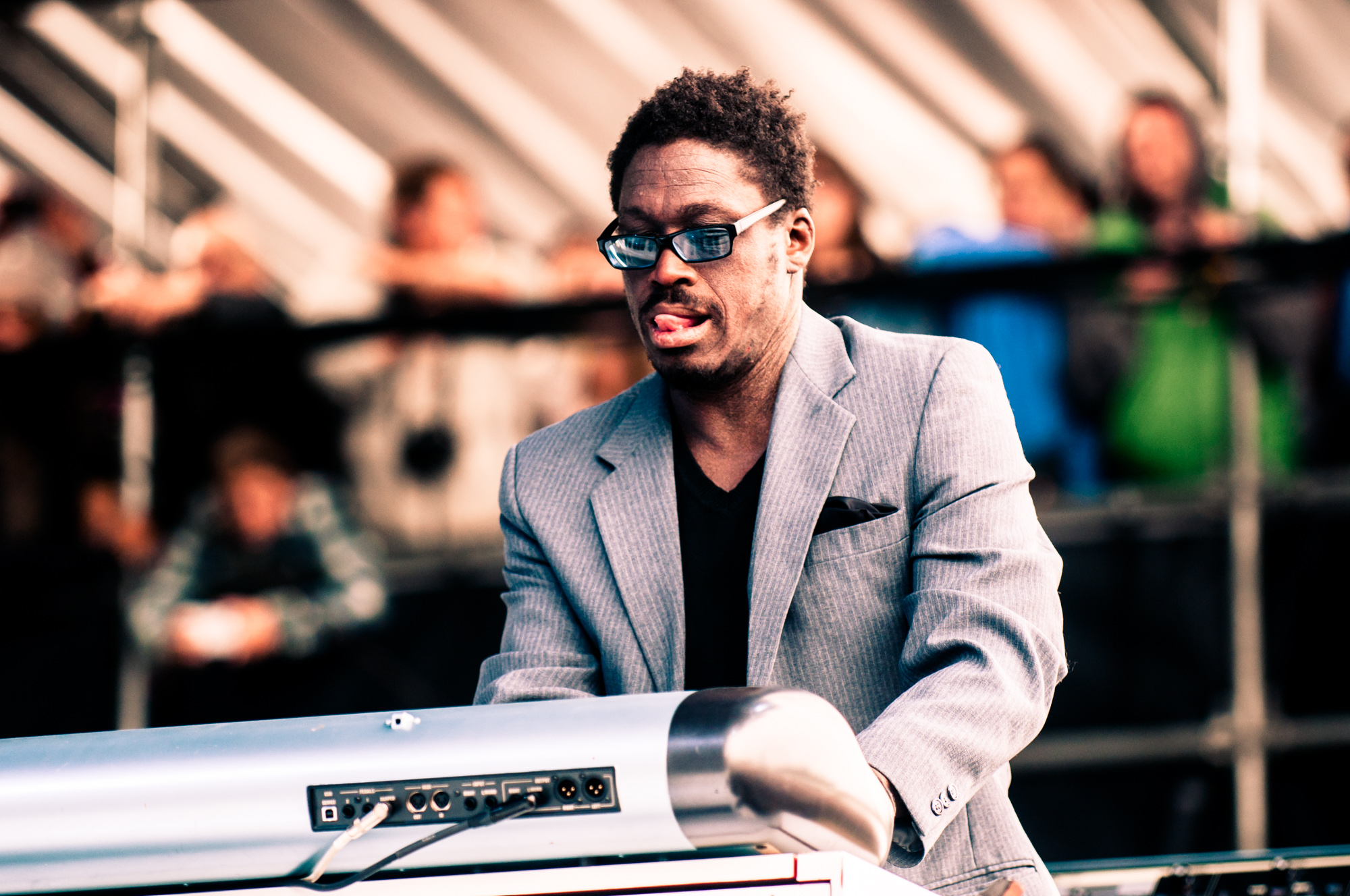 Ikey Owens - Outside Lands 2012